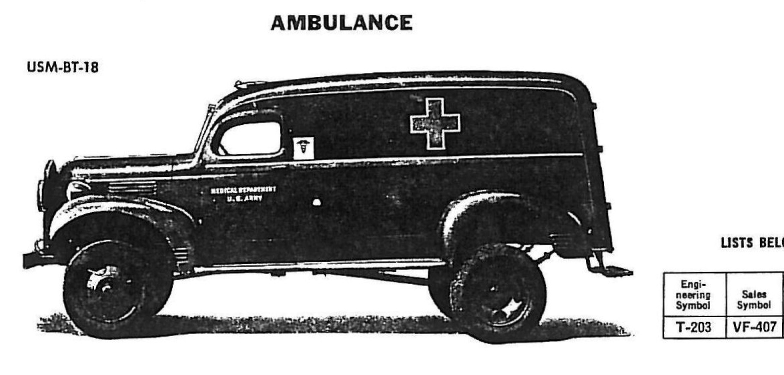 Dodge VF-407 1½-ton Ambulance (engineering code T-203; body type code USM-BT-18)